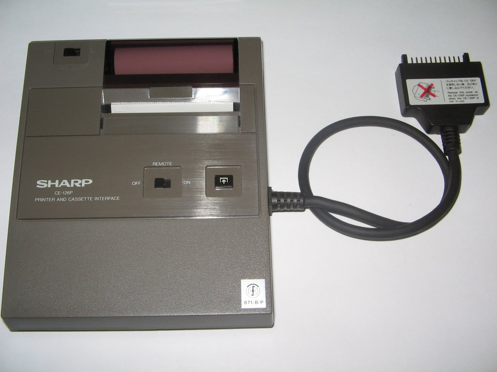 Sharp CE-126P thermal printer